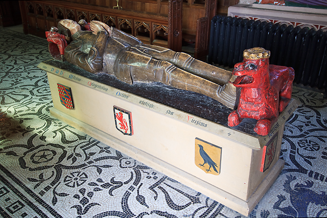 St Mary's church, Burford - monument to Edmund Cornwall